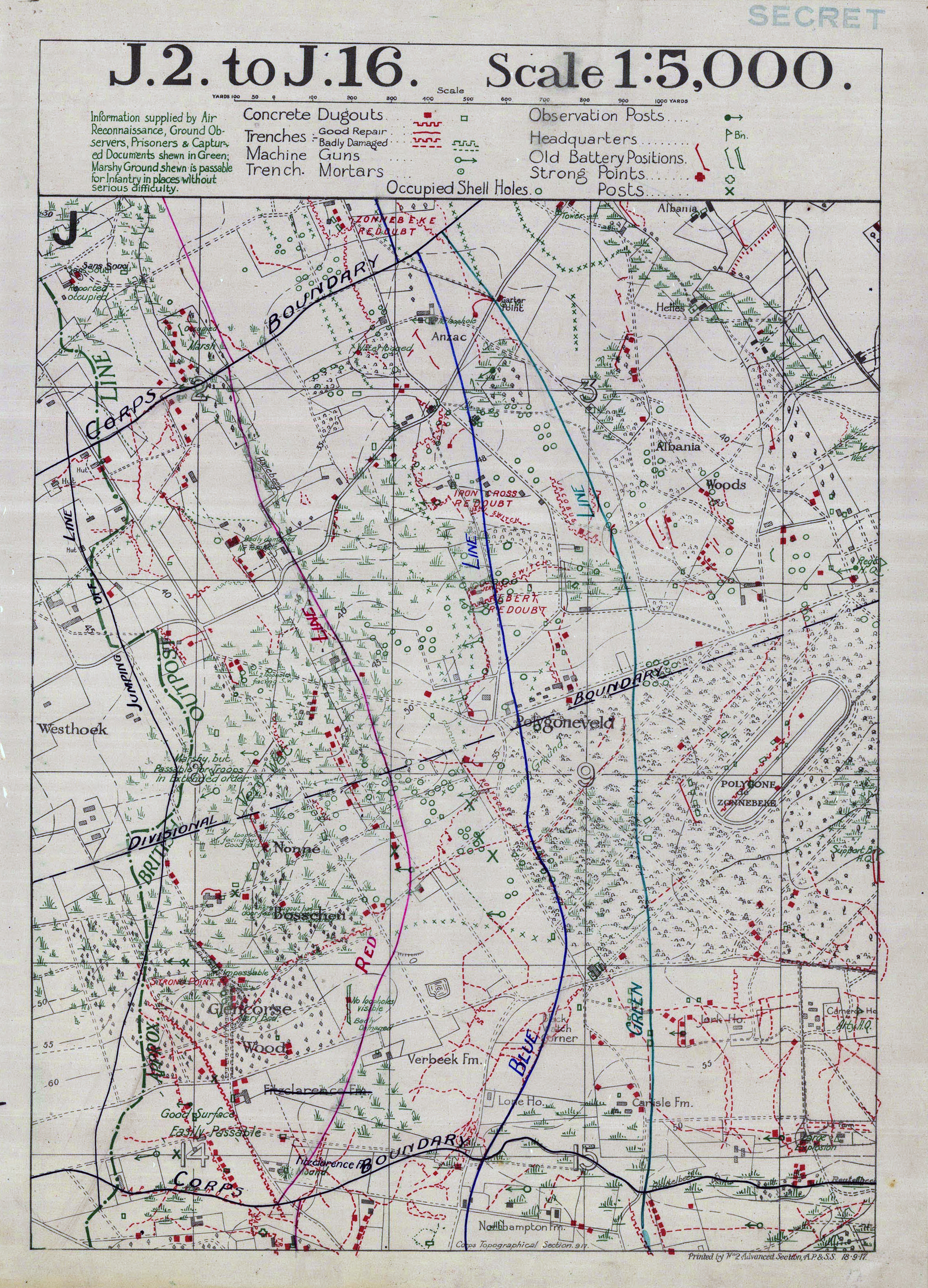 1:5000 scale army artillery barrage map from Battle of Menin Road during the Third Battle of Ypres.